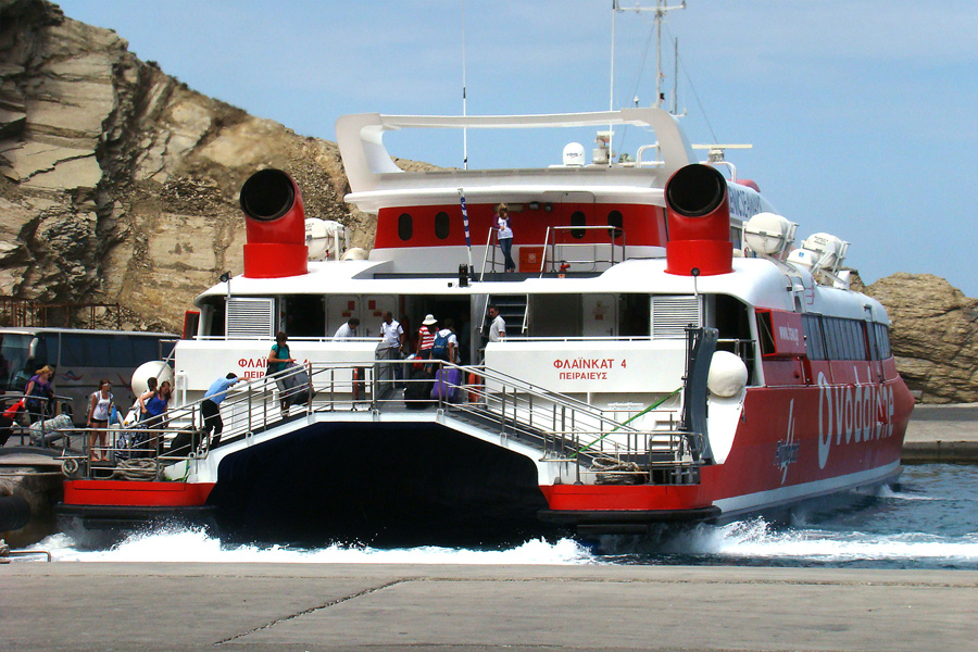 Flyingcat 4 of Hellenic Seaways, Athinios Port, Santorini, Greece.